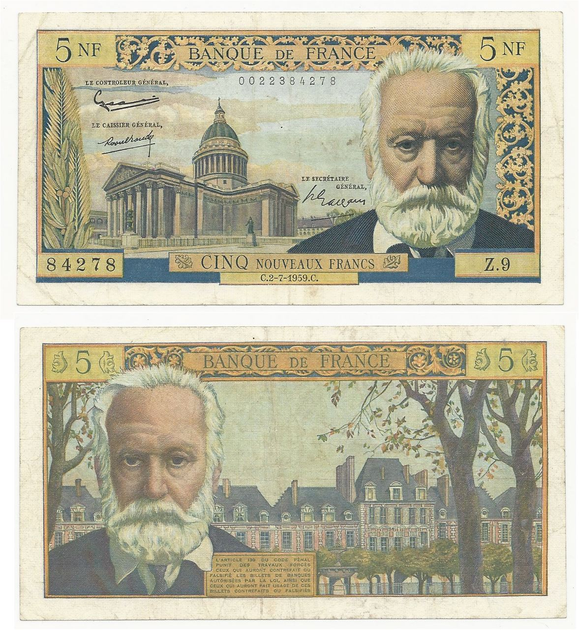 Hugo, Victor, Poet, 1802 Besançon - 1885 Paris. Portrait r. of his burial place the Panthéon in Paris / Portrait l. of Place des Vosges in Paris where he used to live. Pick 141a. Condition: An almost VERY FINE bank note. Some handling, folds, no nicks, no tears, no pinholes, no hidden problems.